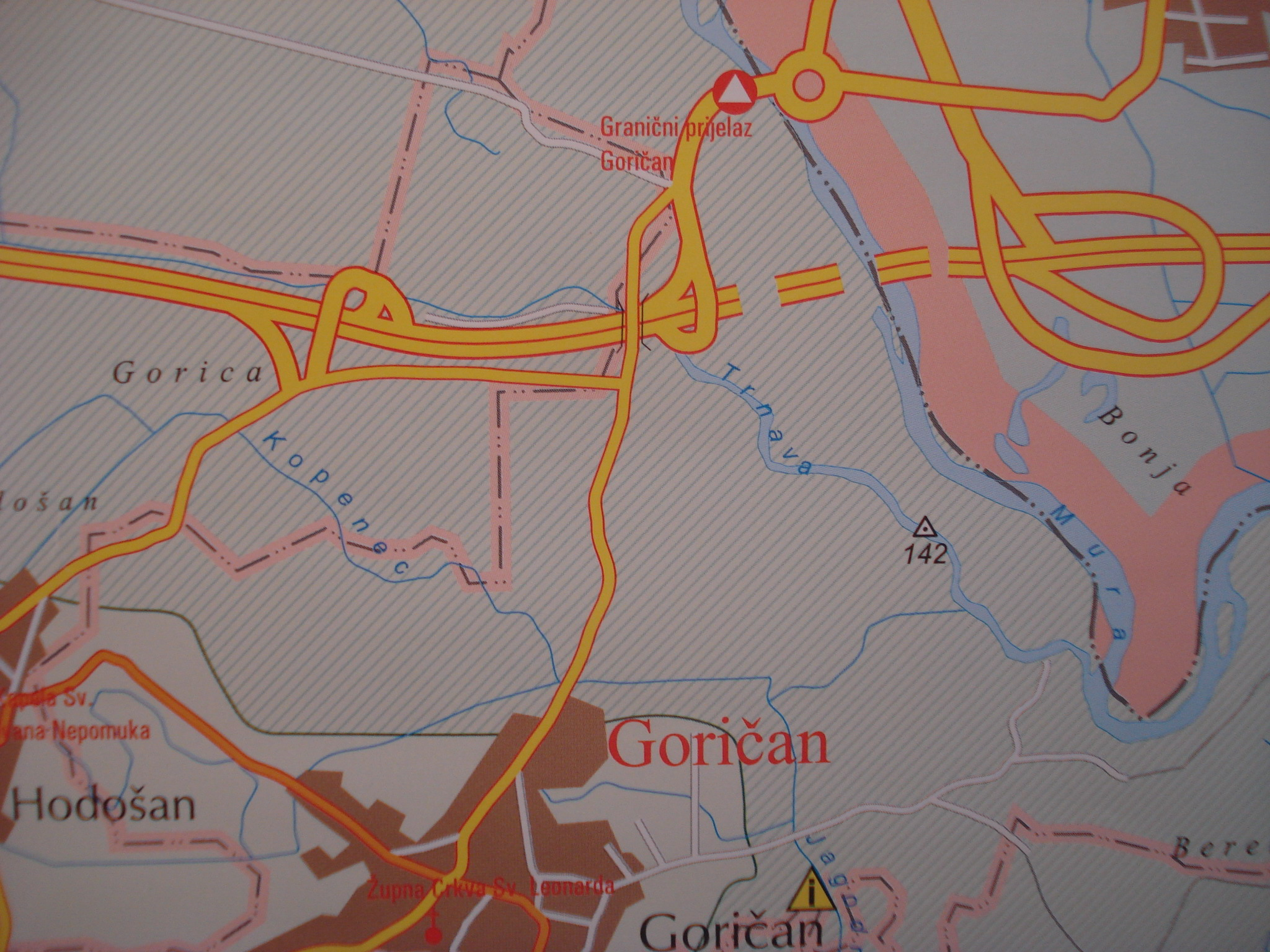 Map of the Medjimurie County, Croatia - Trnava River and Mura River confluence